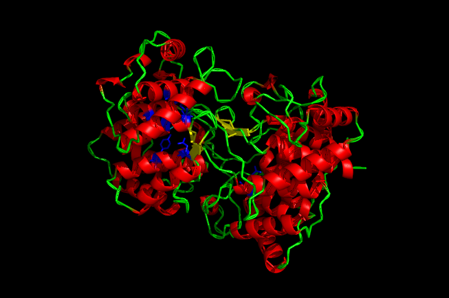 squalene-hopene cyclase